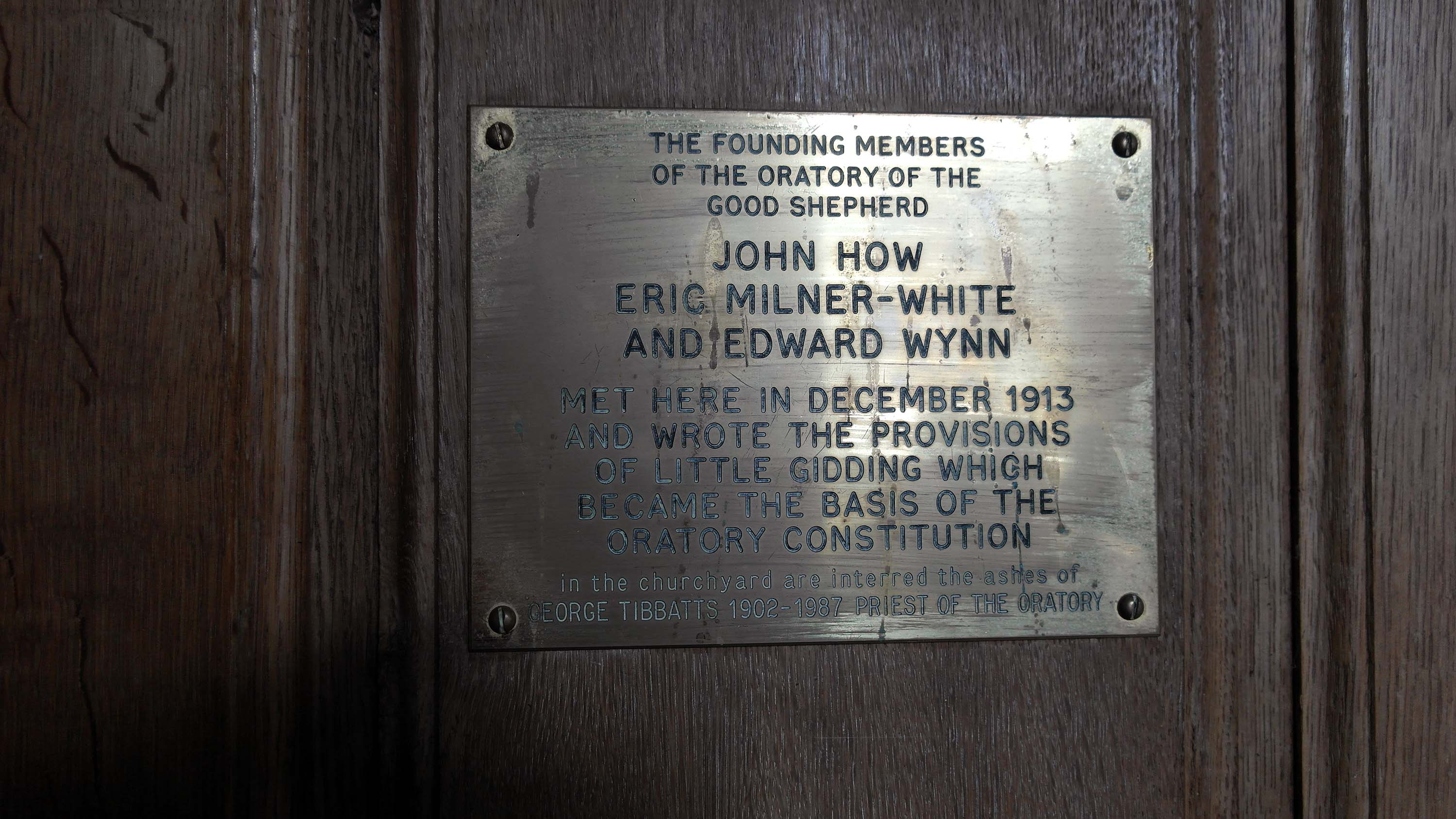 Plaque